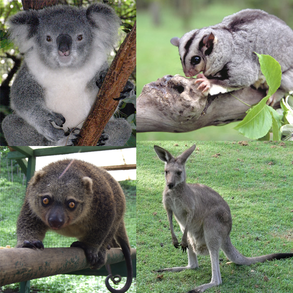 Clockwise from upper left: female koala (Phascolarctos cinereus) at Billabong Koala and Aussie Wildlife Park, Port Macquarie, New South Wales, Australia; mahogany glider (Petaurus gracilis); young eastern grey kangaroo (Macropus giganteus) at Lone Pine Koala Sanctuary, Brisbane, Australia; Sulawesi bear cuscus (Ailurops ursinus) at Grand Naemundung Animal Collection, Tandurusa, North Sulawesi, Indonesia (All these marsupials are from the order Diprotodontia)